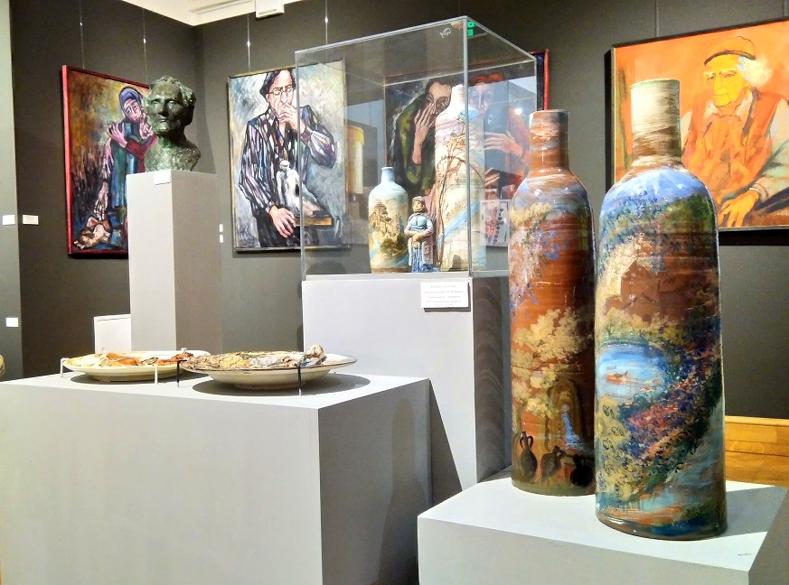 Exhibition of Isabella Aghayan. All-Russia Museum of Decorative, Applied and Folk Art, 2019. Выставка Изабеллы Агаян. Всероссийский музей декоративно-прикладного и народного искусства, 2019